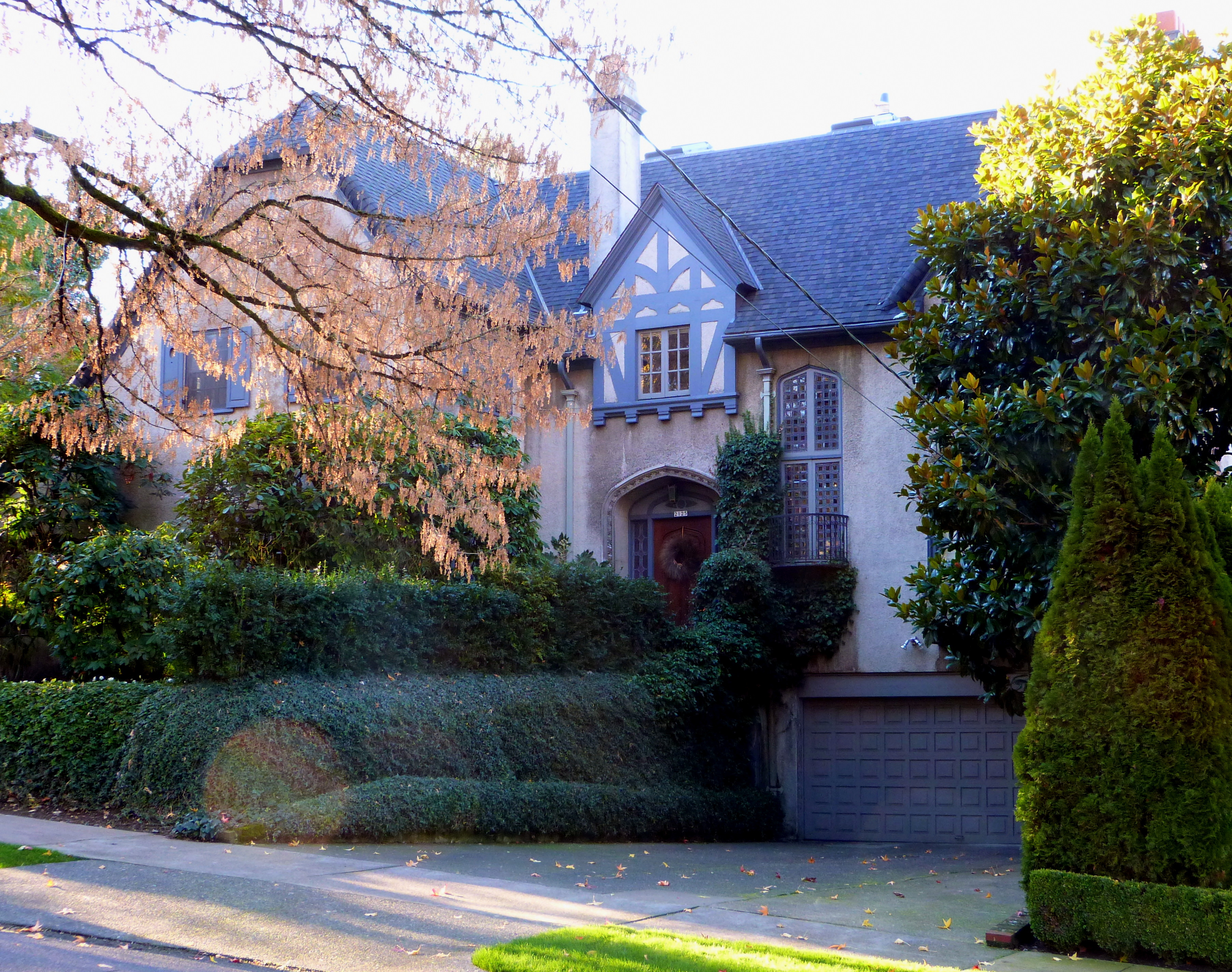 The historic Dr. James Rosenfeld House (built 1922), located at 2125 Northeast 21st Avenue in Portland, Oregon, United States, is listed on the US National Register of Historic Places.